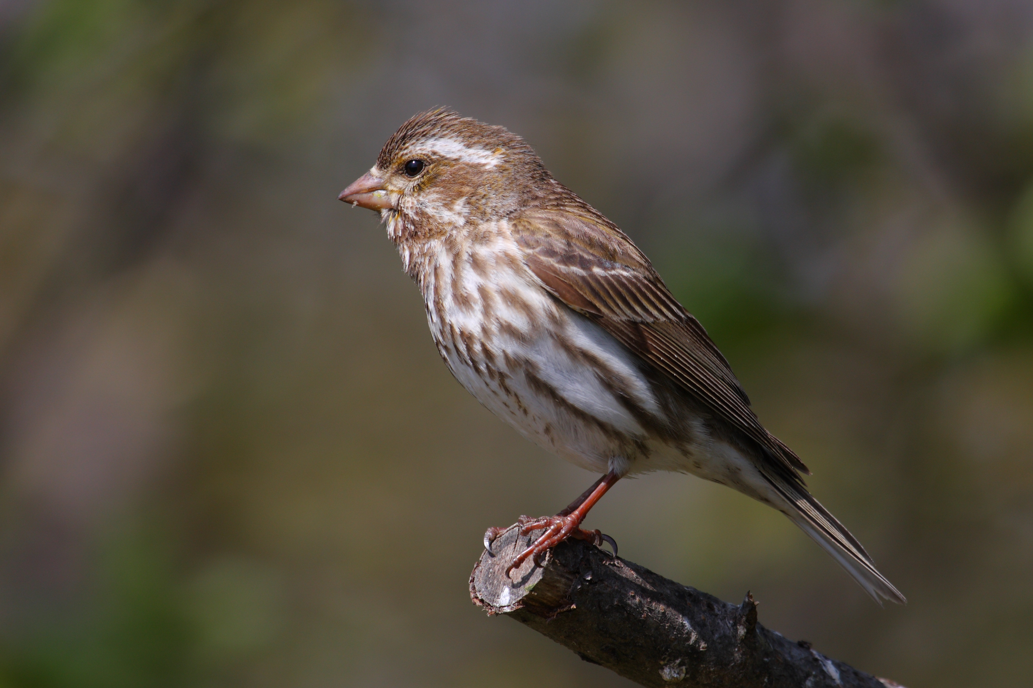 Purple Finch (Carpodacus purpureus) female, Cap Tourmente National Wildlife Area, Quebec, Canada.